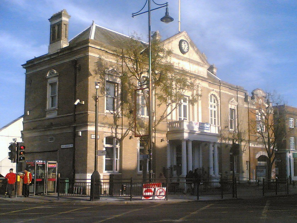 The old town hall and fire station at the junction of Lady Margaret Road and the High Street, in Southall, London, UK. The building is now used as a business advice centre.